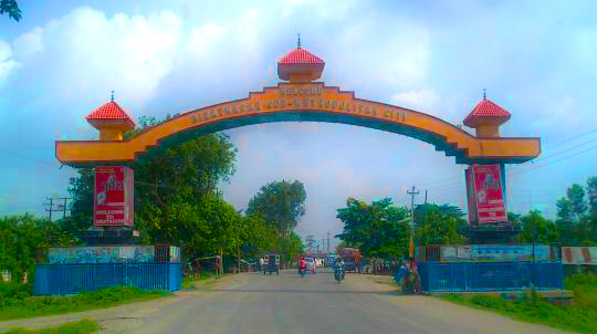 Biratnagar